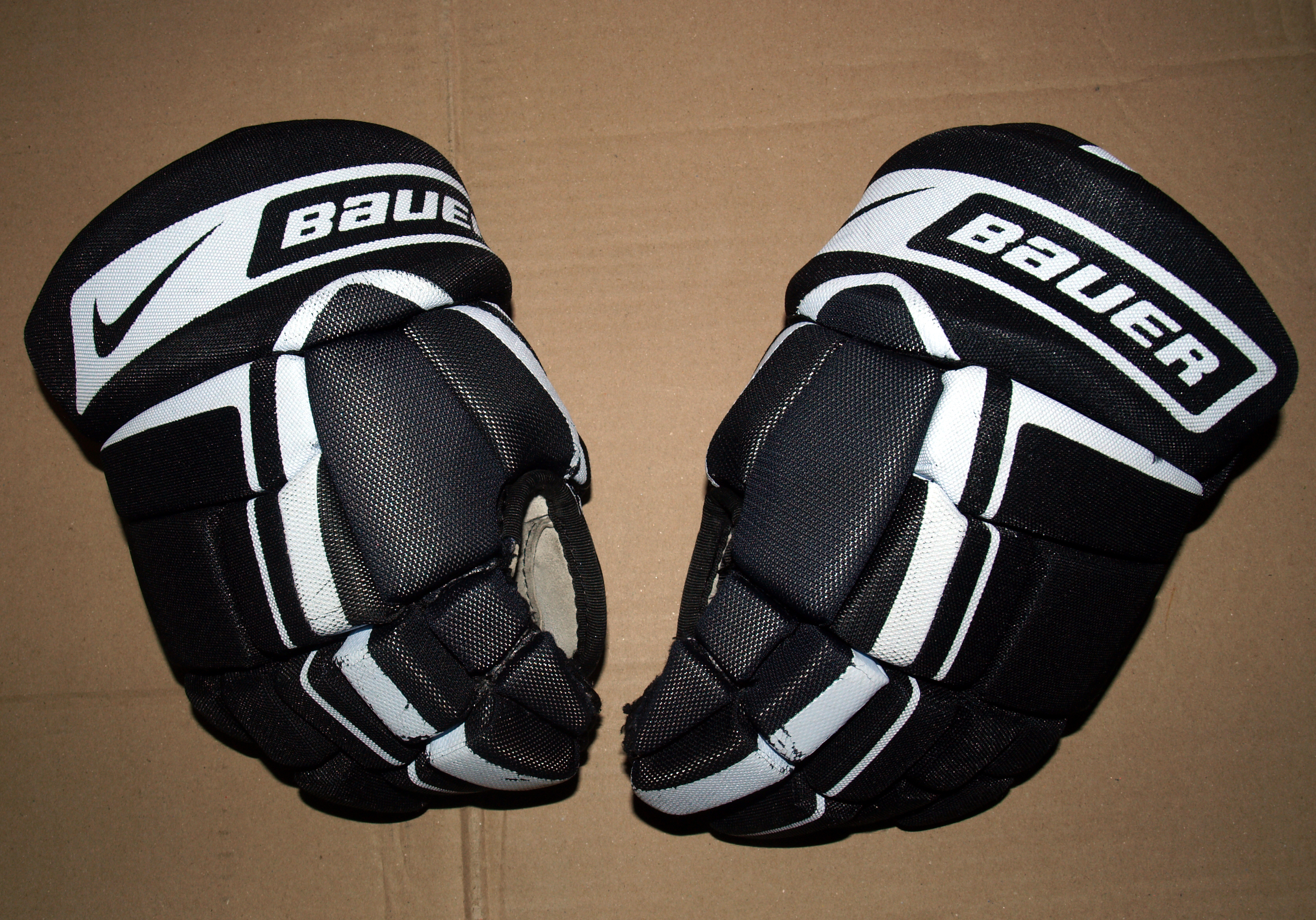 Nike Bauer ice hockey gloves.